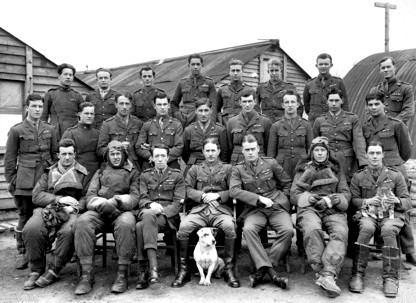 France: Nord Pas de Calais, Pas de Calais, Savy. Group portrait of the officers of No. 2 Squadron of the Australian Flying Corps. Left to right, back row: Lieutenant (Lt) P. Hosking; Captain (Capt) E. D. Cummings DFC; Lt F. W. Follett; Lt O. T. Flight; Capt G. H. Blaxland; Lt G. Brettingham-Moore; Lt H. E. Hamilton; Lt A. R. Rackett. Middle row: Lt A. C. Cameron; Lt W. Q. Adams; Lt L. Benjamin; Capt R. W. McKenzie MC; Lt F. W. Sexton; Lt C. F. Felstead; Lt L. J. Primrose; Lt L. F. Loder; Capt R. L. Manuel DFC. Front row: Lt A. G. Clark; Capt L. H. Holden; Capt H. G. Forrest DFC; Major W. Sheldon, Officer Commanding; Capt R. C. Phillipps MC DFC; Capt F. R. Smith MC DFC; Lt L. S. Truscott. Note the dog sitting in front of Major Sheldon and the cat sitting in Lt Truscott's lap.